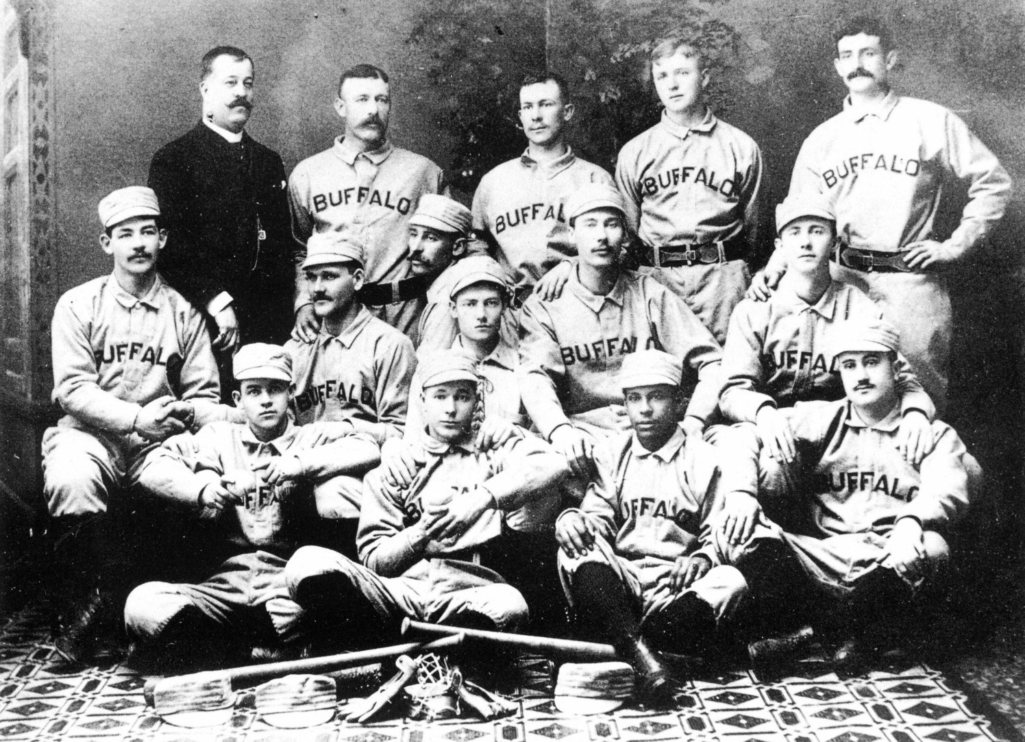 1887 Buffalo Bisons baseball team. Frank Grant is sitting second from right in the front row.